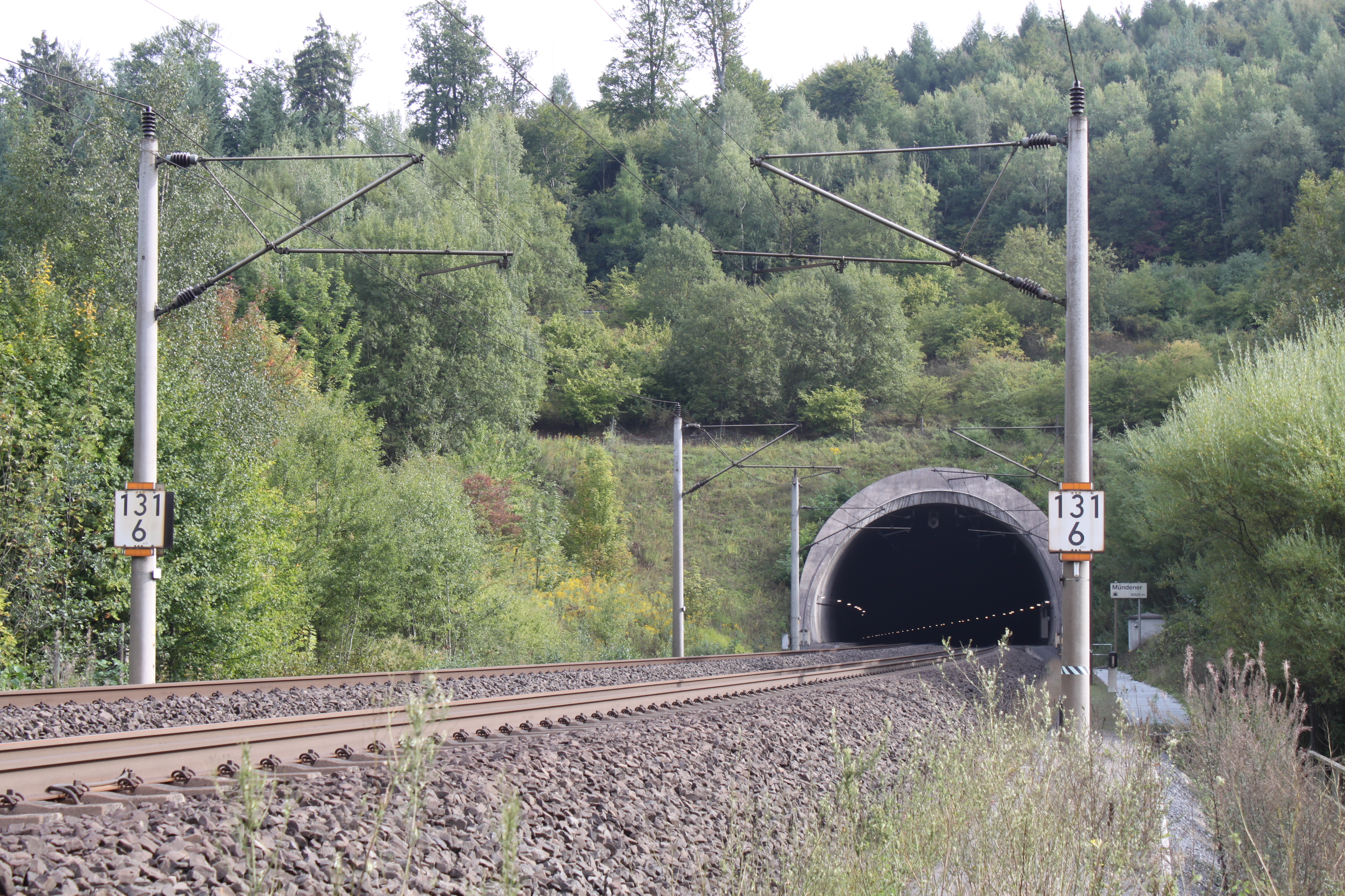 South entrance to Mündener Tunnel.